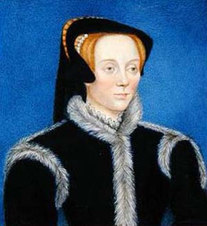 Portait of Catherine or Katherine Willoughby, Baroness Willoughby de Eresby, Duchess of Suffolk, after a miniature by Hans Holbein.